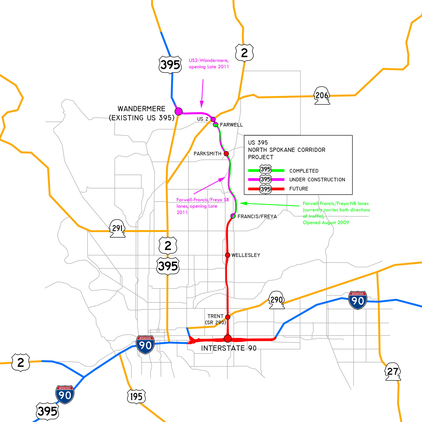 Map of the approved route of the US 395 North Spokane Corridor with surrounding context.